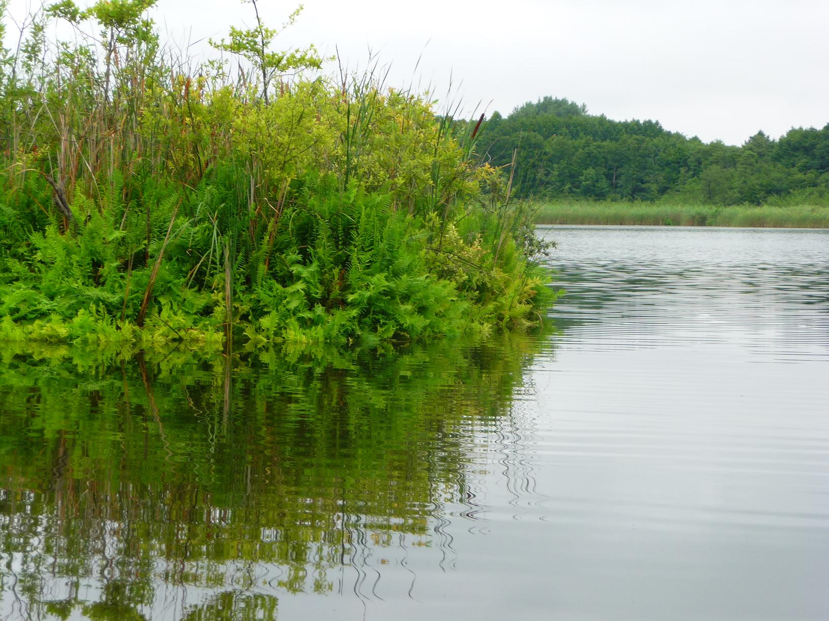 At the lake „Kleiner Plessower See“